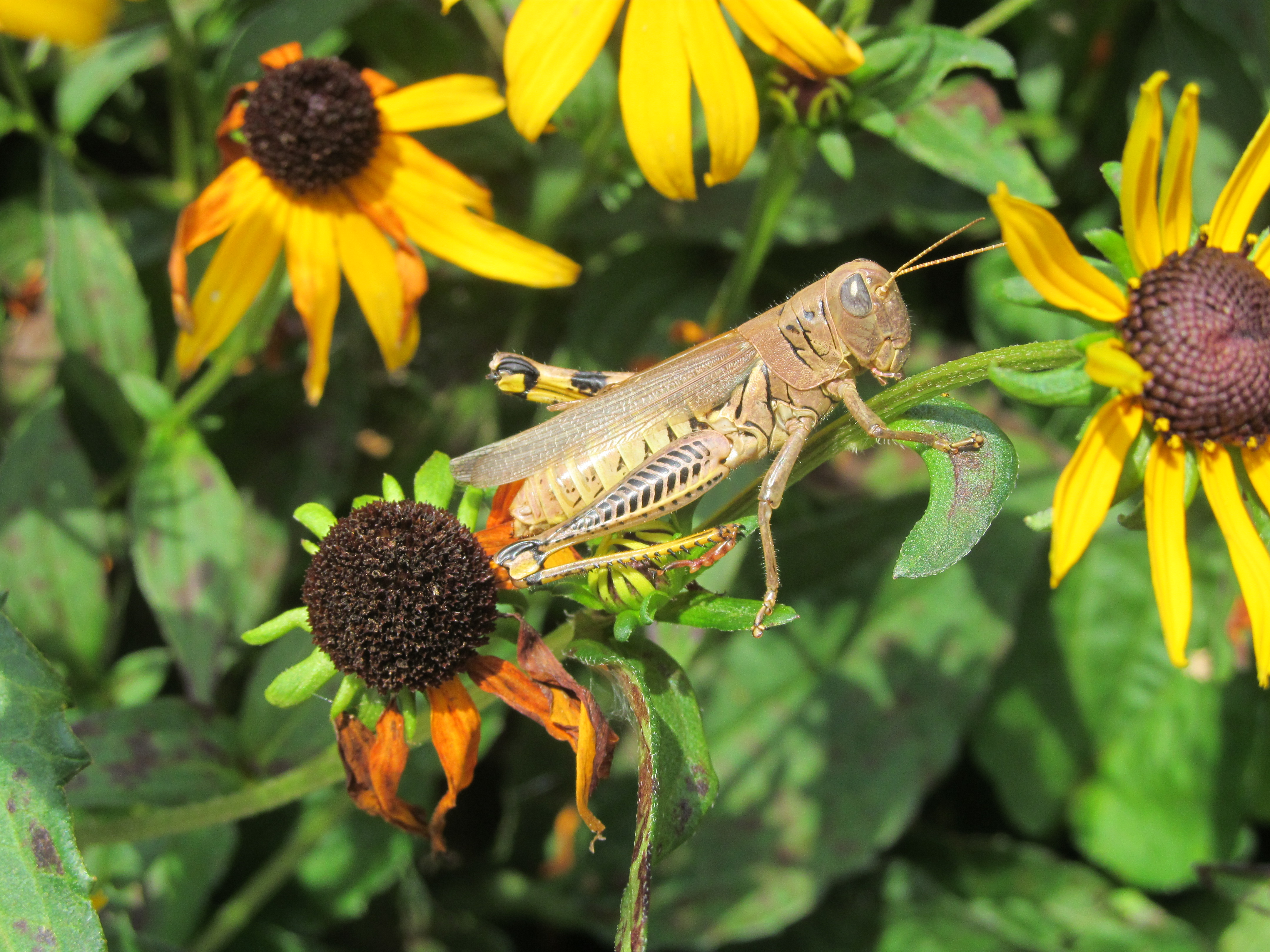 Grasshopper in my front yard